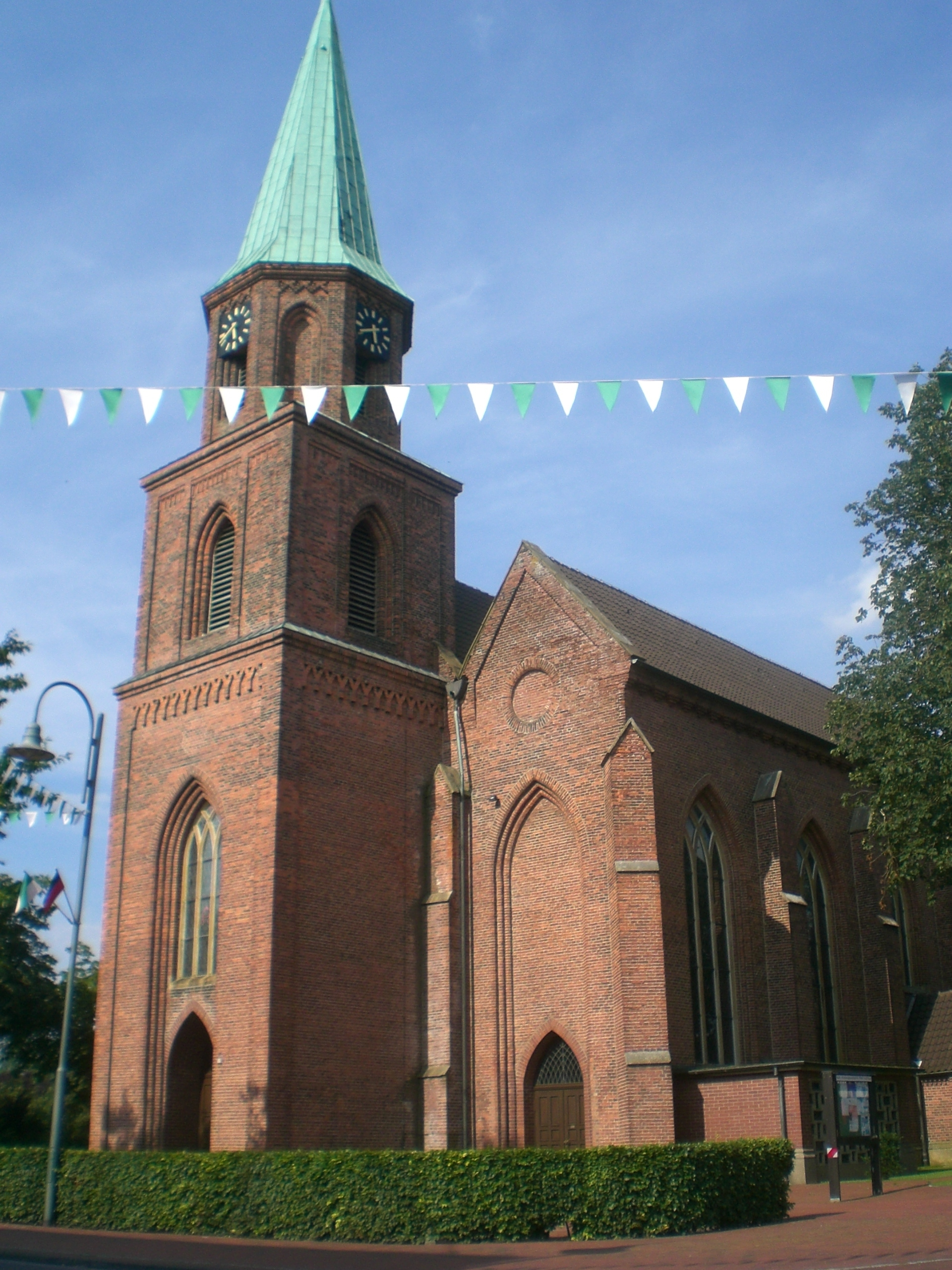 The catholic church in Holdorf, Lower Saxony, Germany